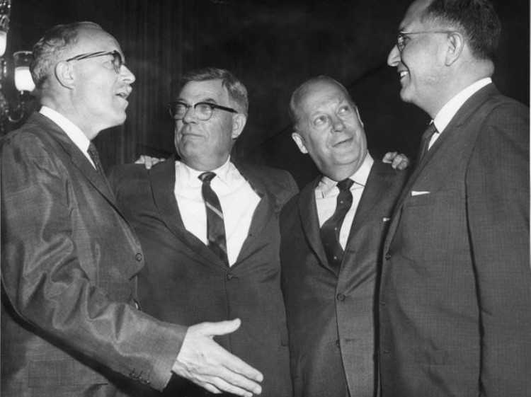 South Dakota United States Congressional Delegation, 87th Congress 1961-1963. Left to right: Ellis Y. Berry, Joseph H. Bottum, Karl E. Mundt, Ben Reifel.